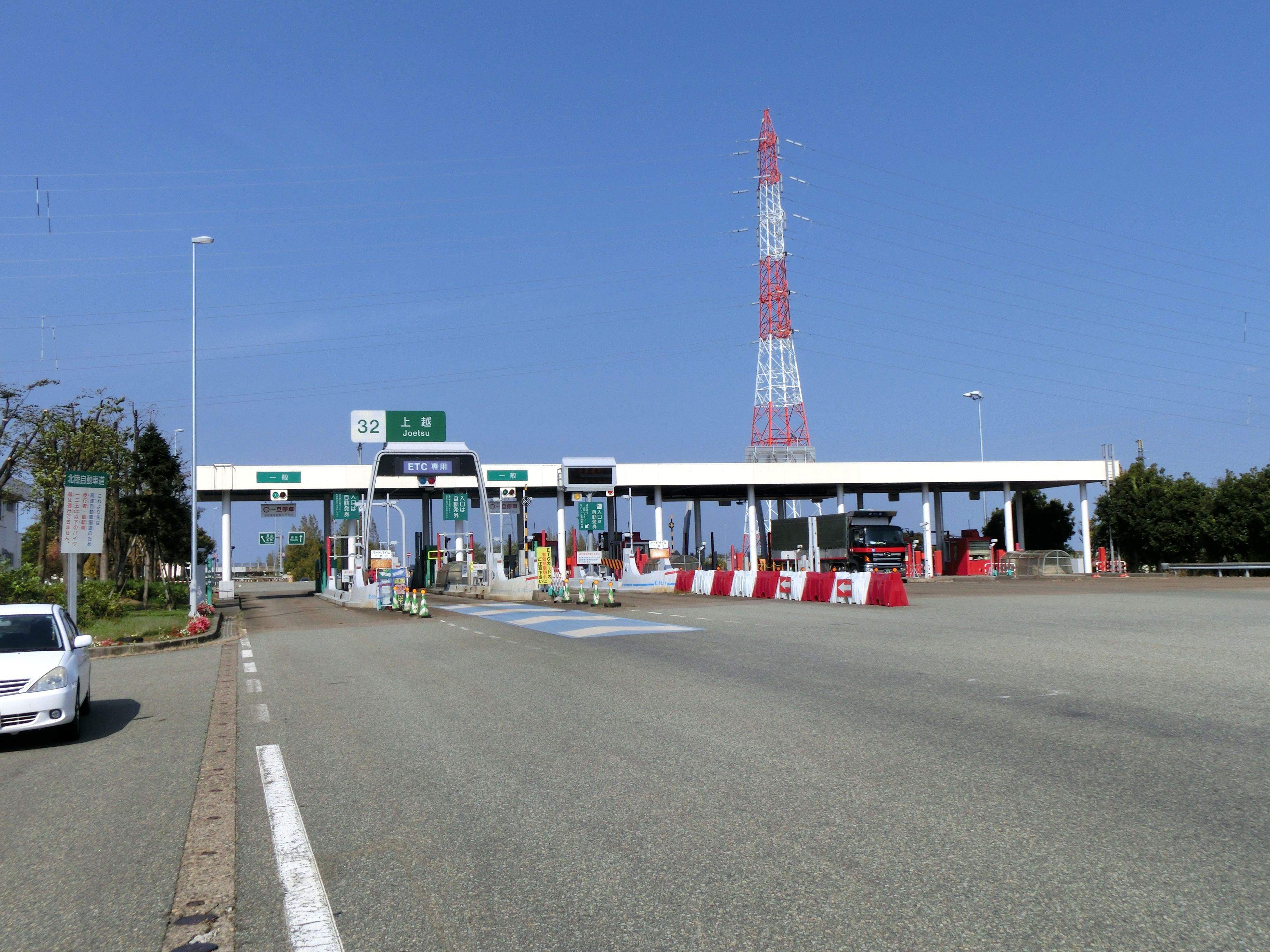 Toll gates at Joetsu Interchange on the Hokuriku Expressway in Japan